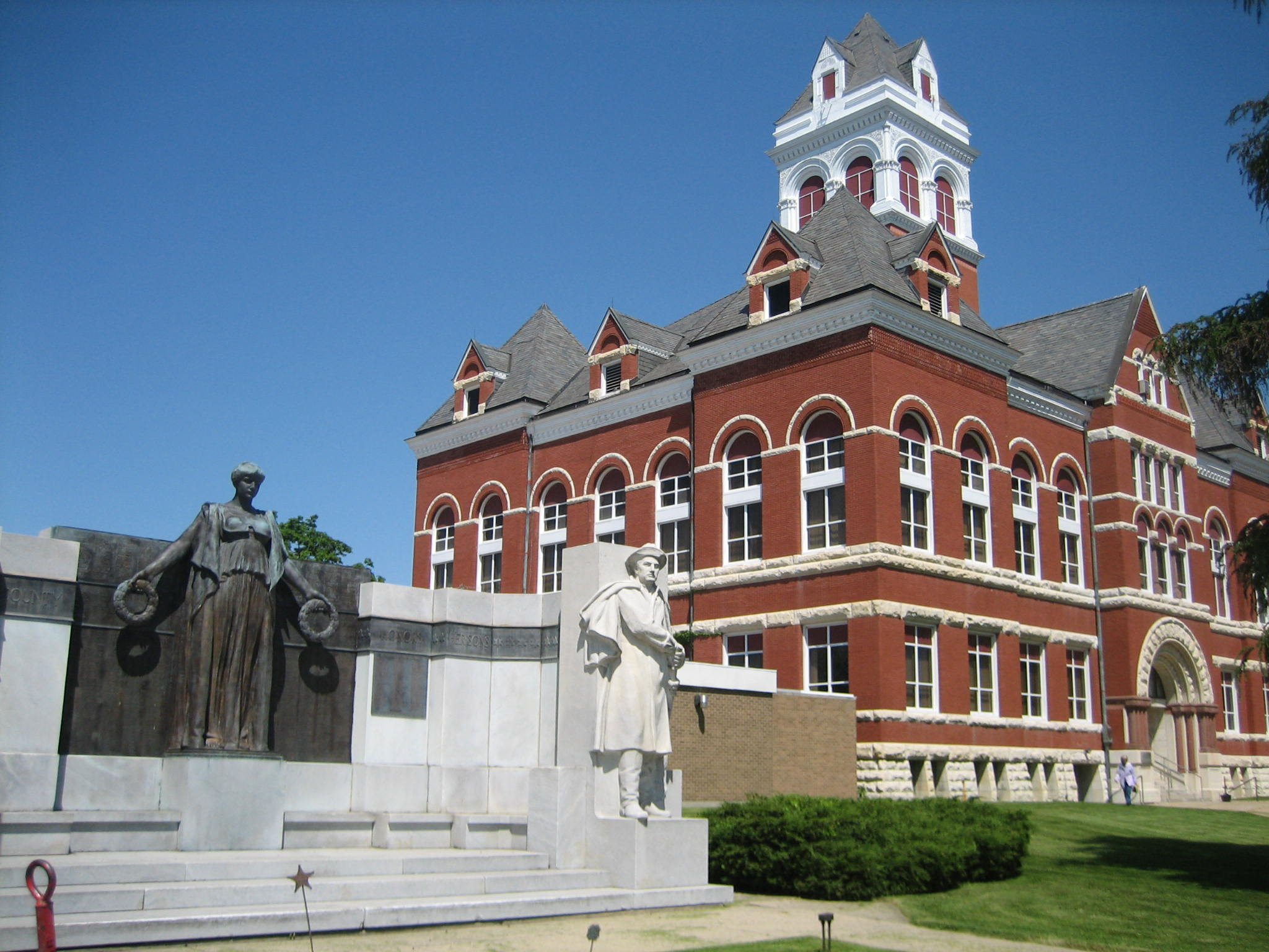 Old Ogle County Courthouse Oregon, Illinois, courthouse square. It is a contributing property to the Oregon Commercial Historic District, as well as having its own listing on the National Register of Historic Places.